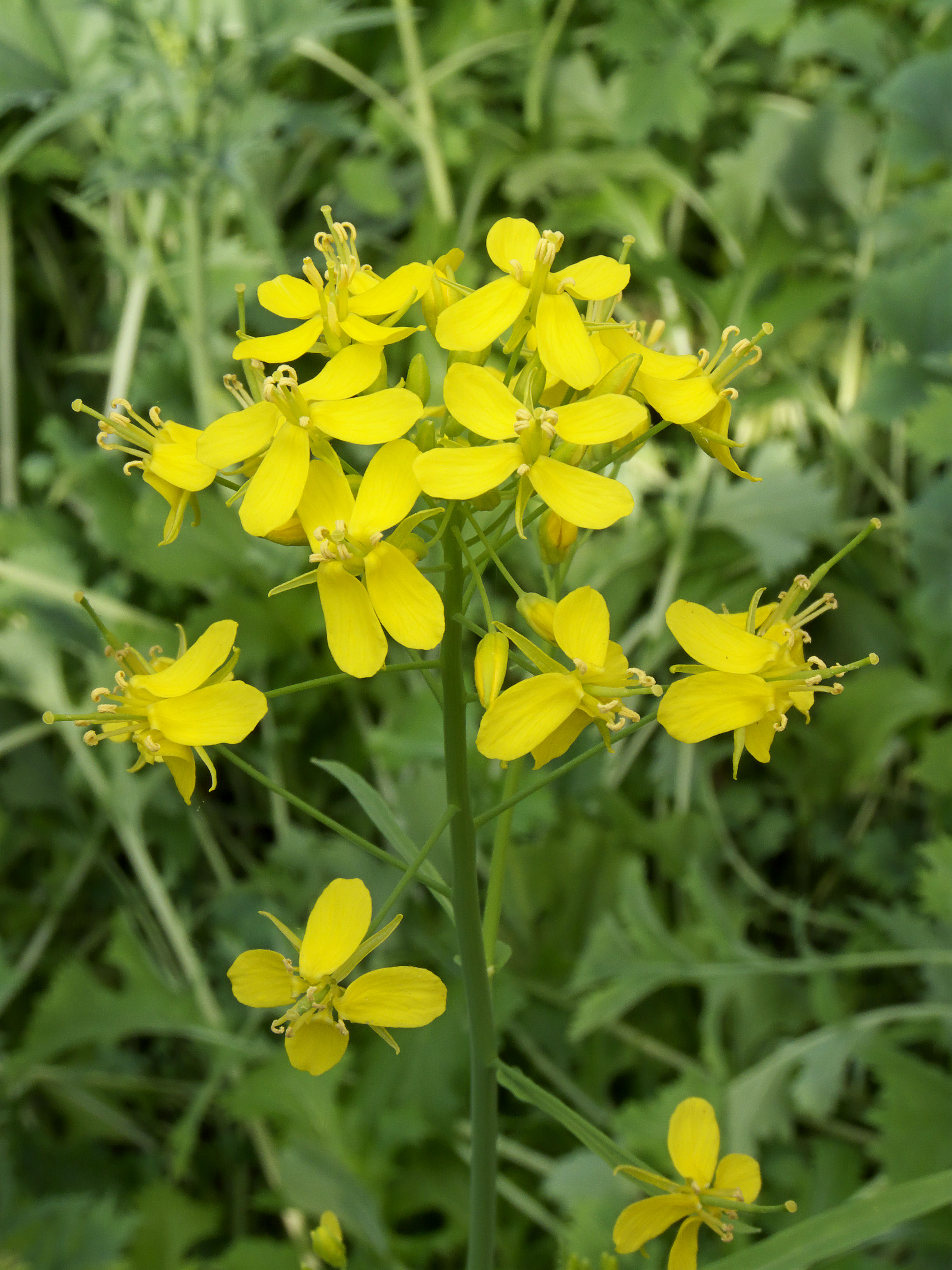 Brassica rapa subsp. campestris